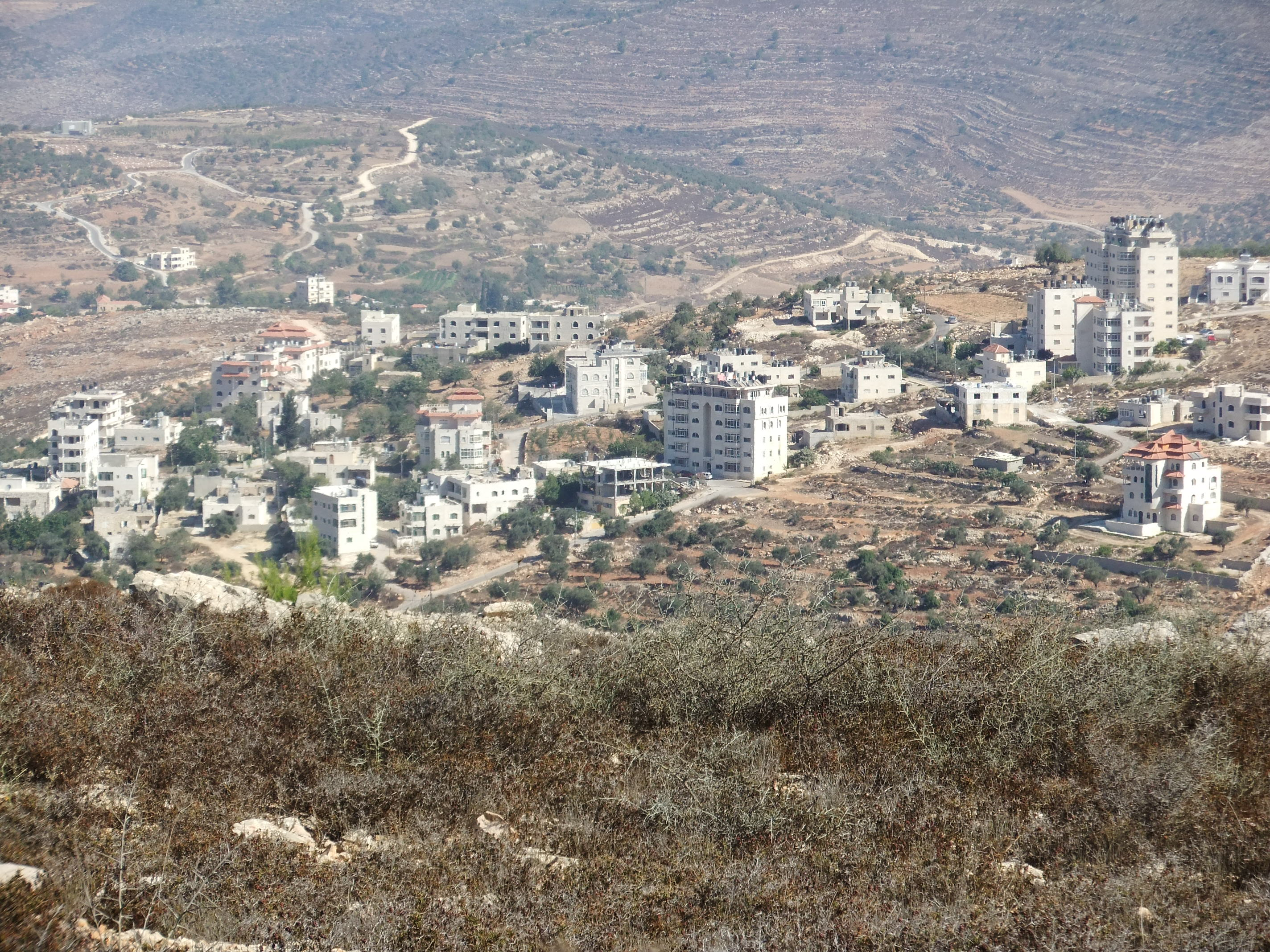 Northern part of Dura al-Qar' from the Artis (view from the south)